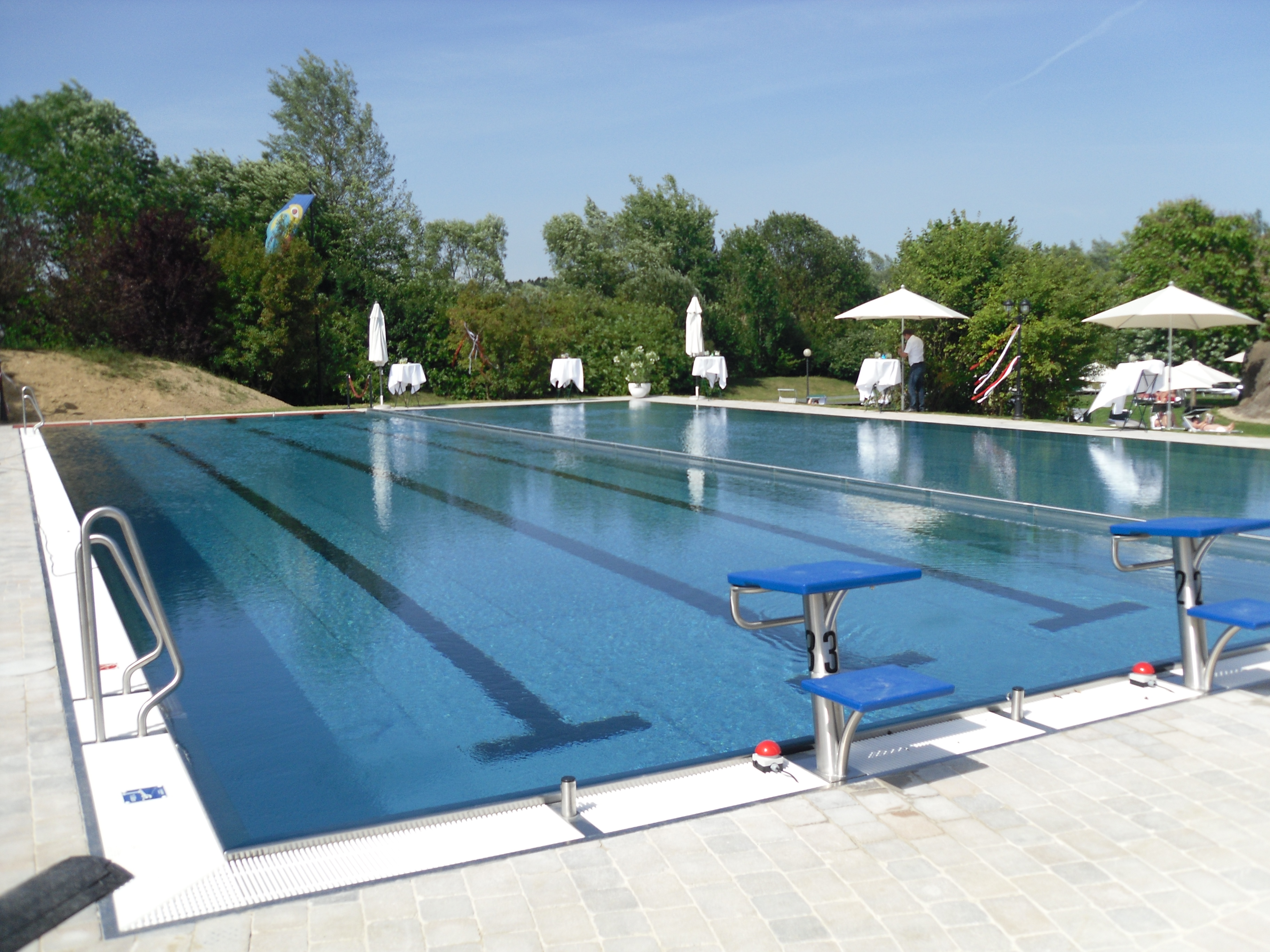 Rogner Bad Blumau